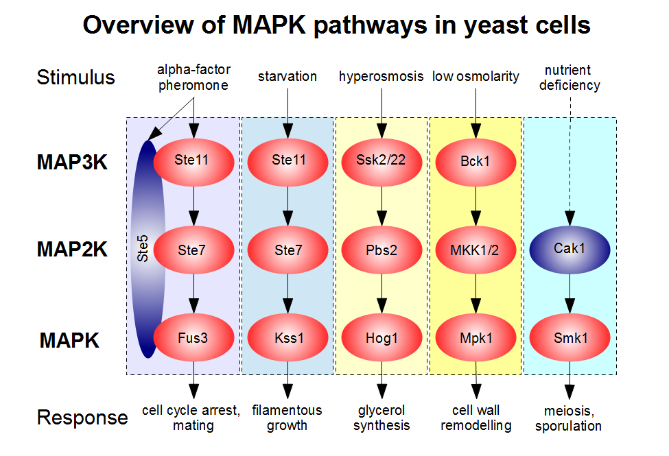 Simplified overview of yeast MAPK pathways.